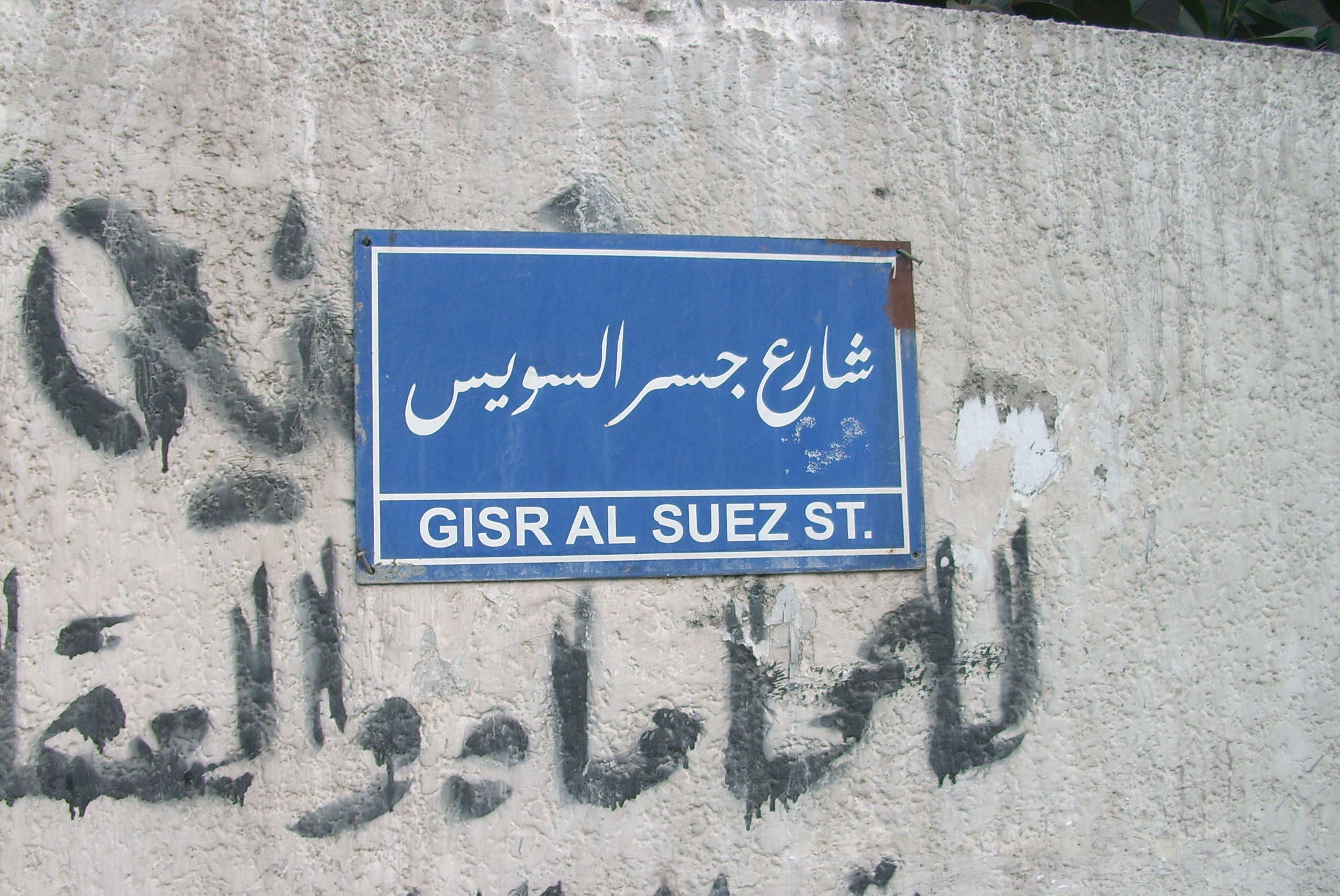 Fareq Aziz Ali el-Masry street